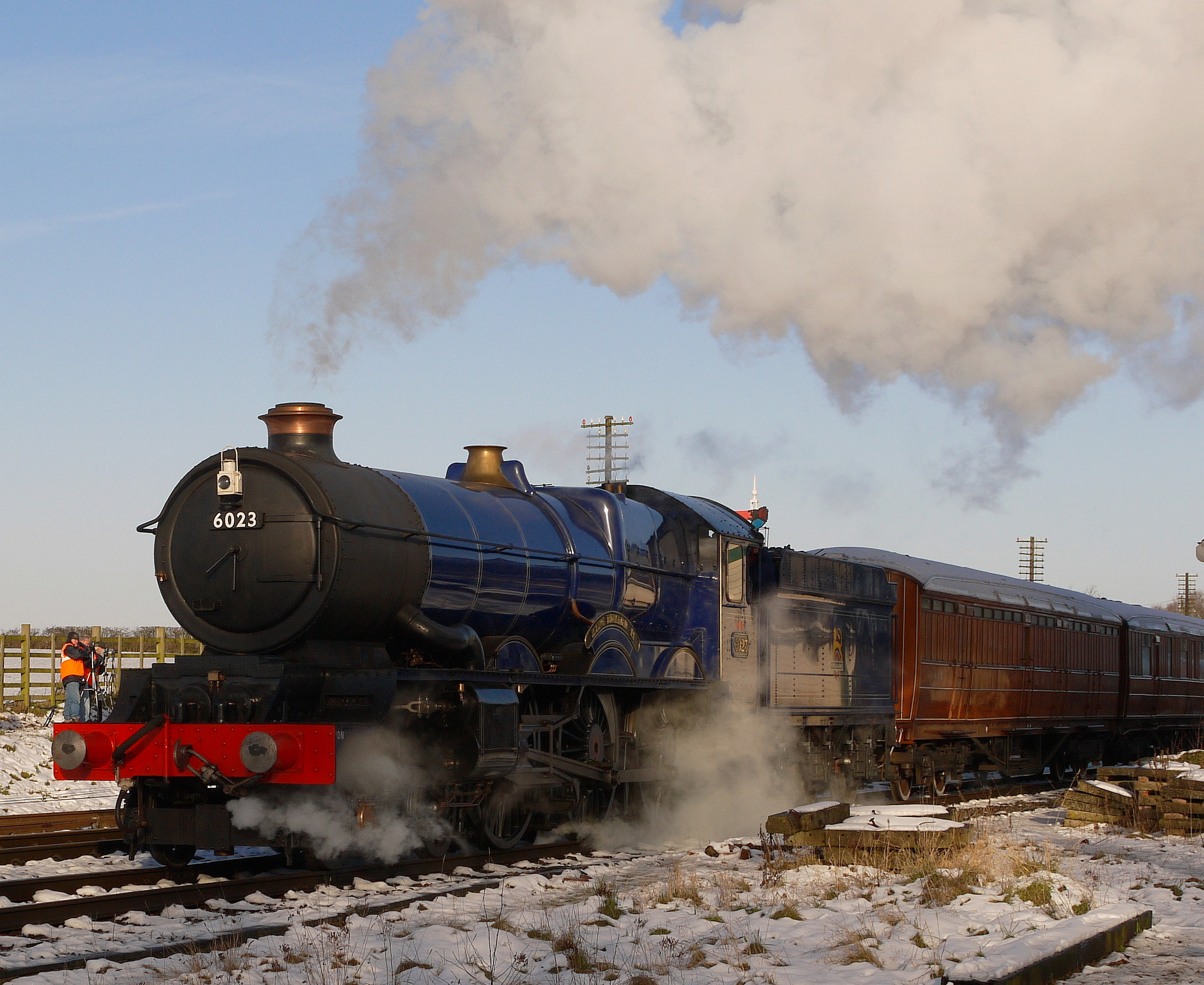 6023 at Quorn on the Great Central Railway